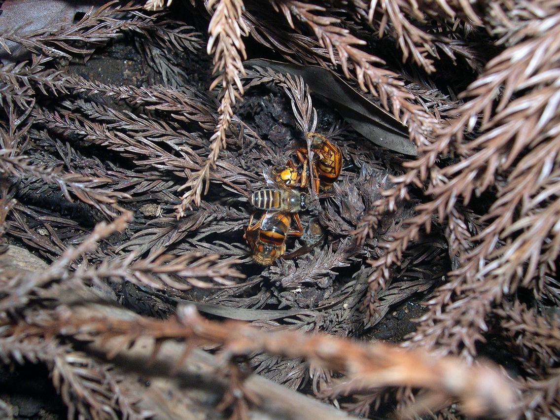 Dead hornets (Vespa simillima xanthoptera) seen after the "bee ball" dissolved (see aslo Image:honeybee_thermal_defence01.jpg)